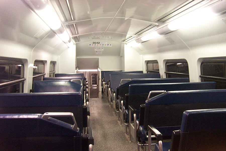 View of the upper deck of a K set.